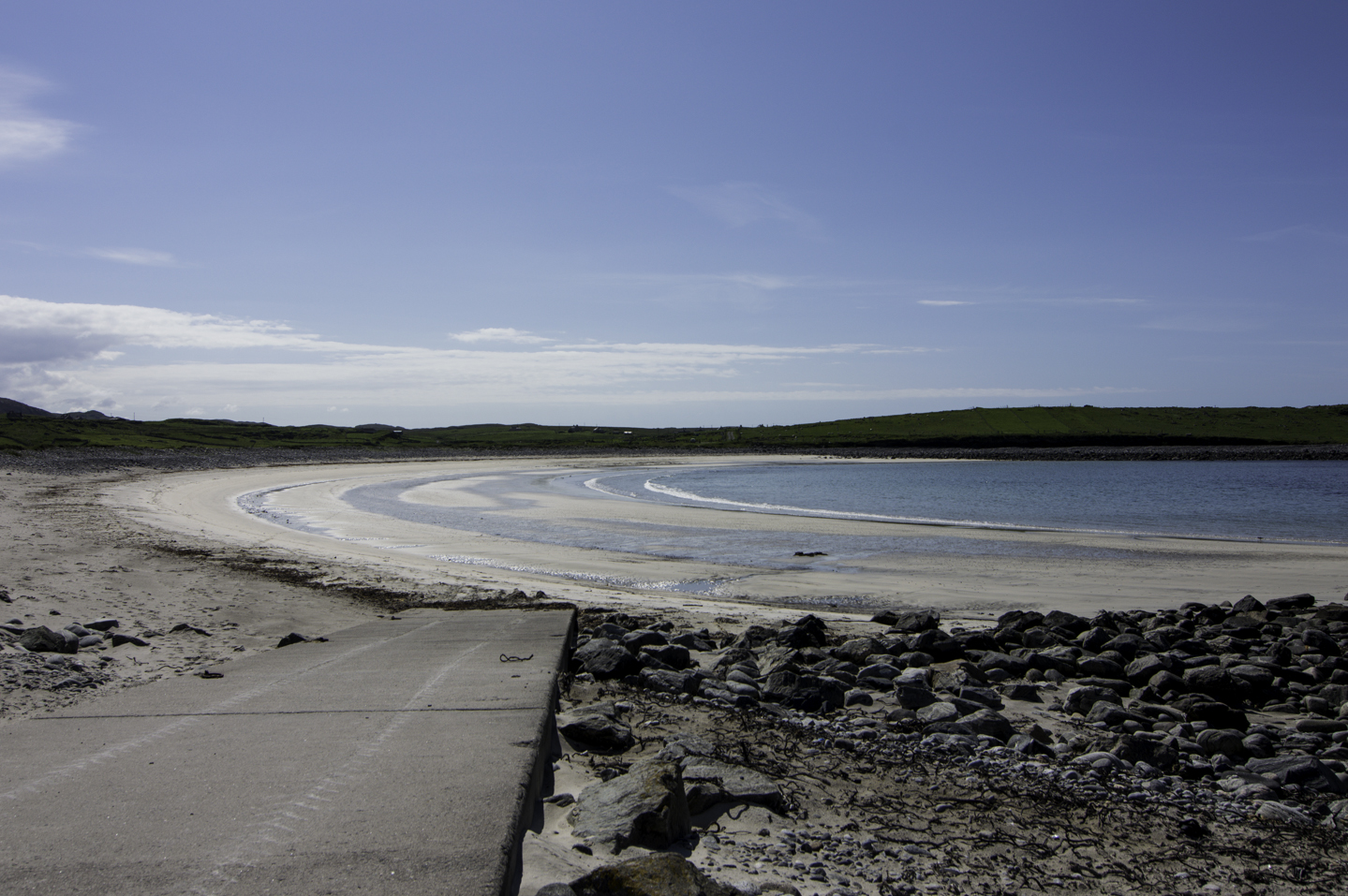 Shiaboist beach